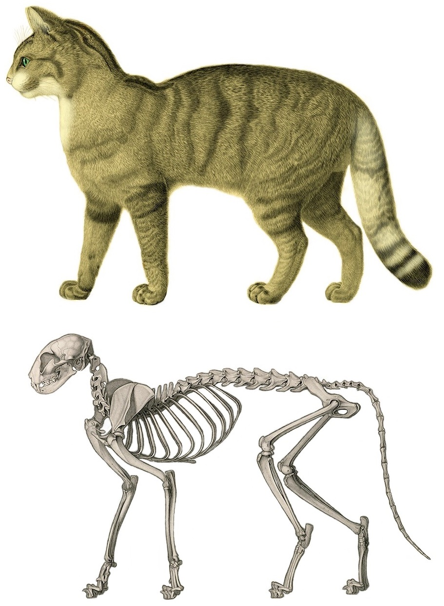 Wildcat illustration